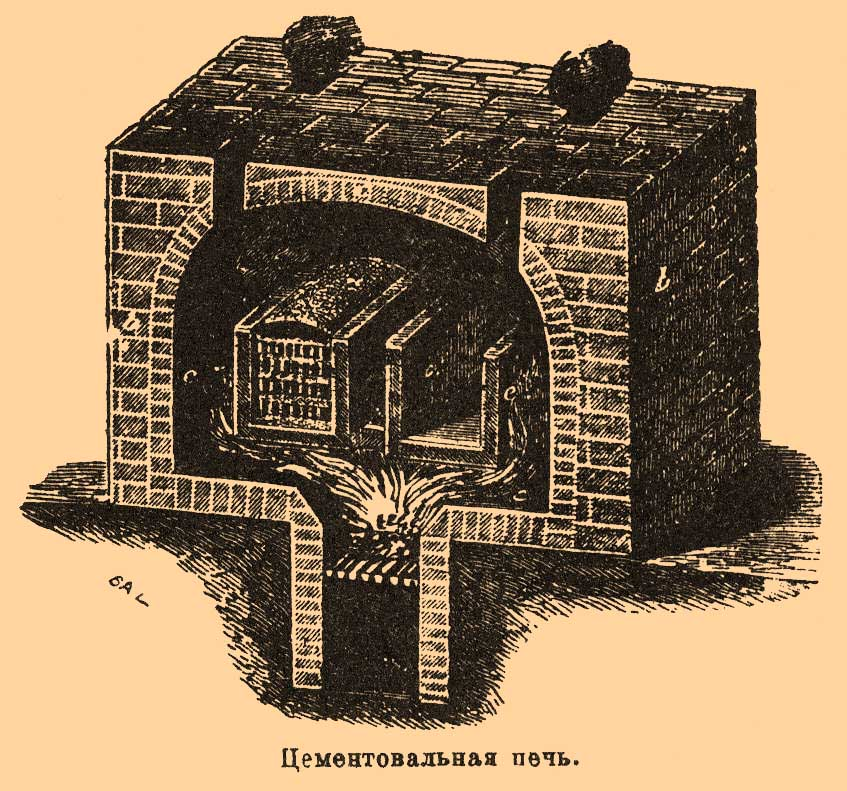 Illustration from Brockhaus and Efron Encyclopedic Dictionary (1890—1907)